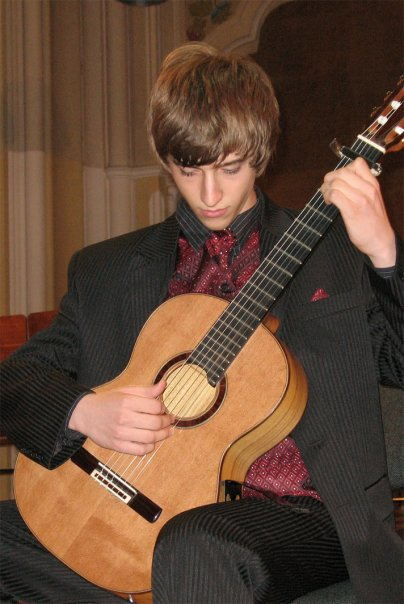 Mircea Stefan Gogoncea in concert, Satu Mare, Romania, 2008